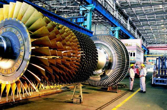 Steam turbine rotor